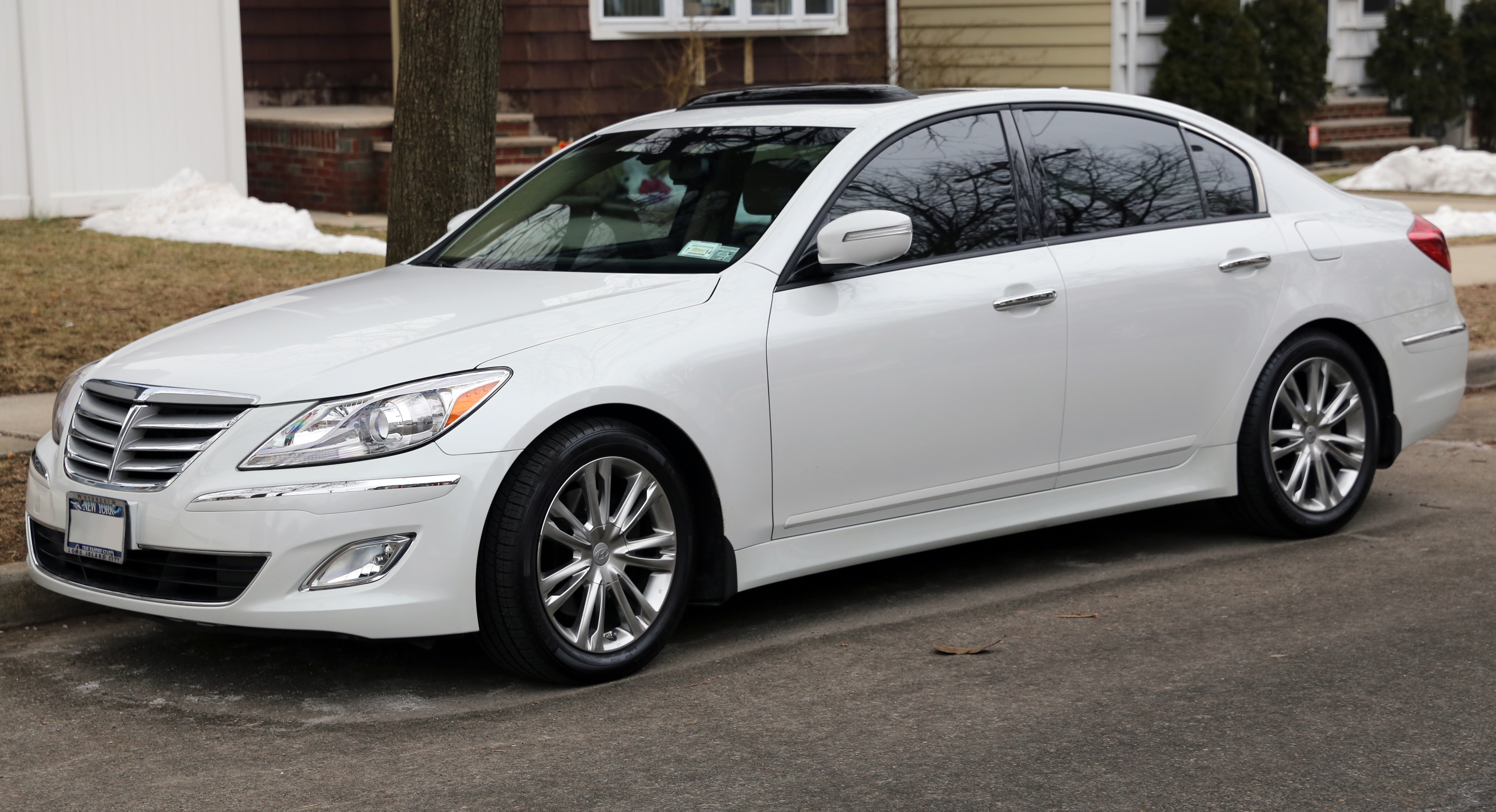 2013 Hyundai Genesis sedan, with the 3.8 litre V6 engine. Built in Ulsan, South Korea.